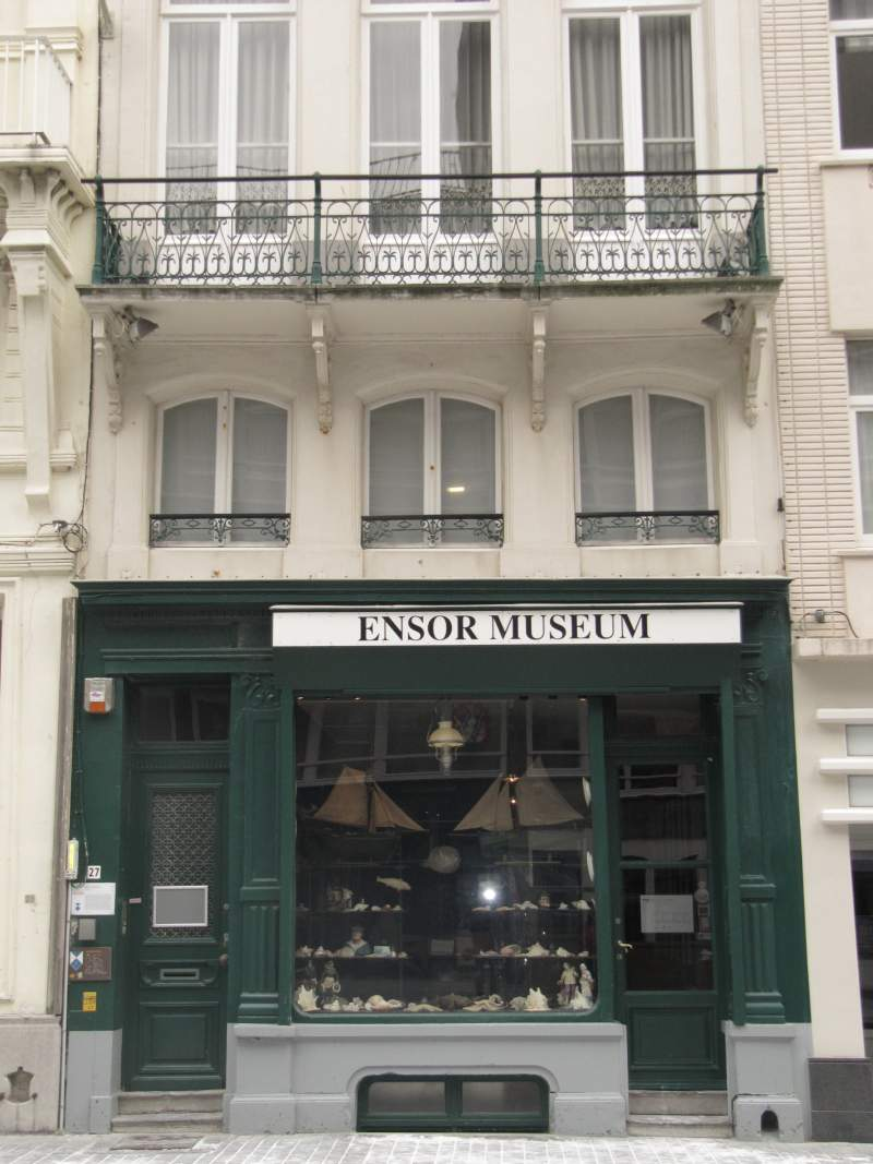 James Ensor Museum, Vlanderstraat27, Ostende, Belgium